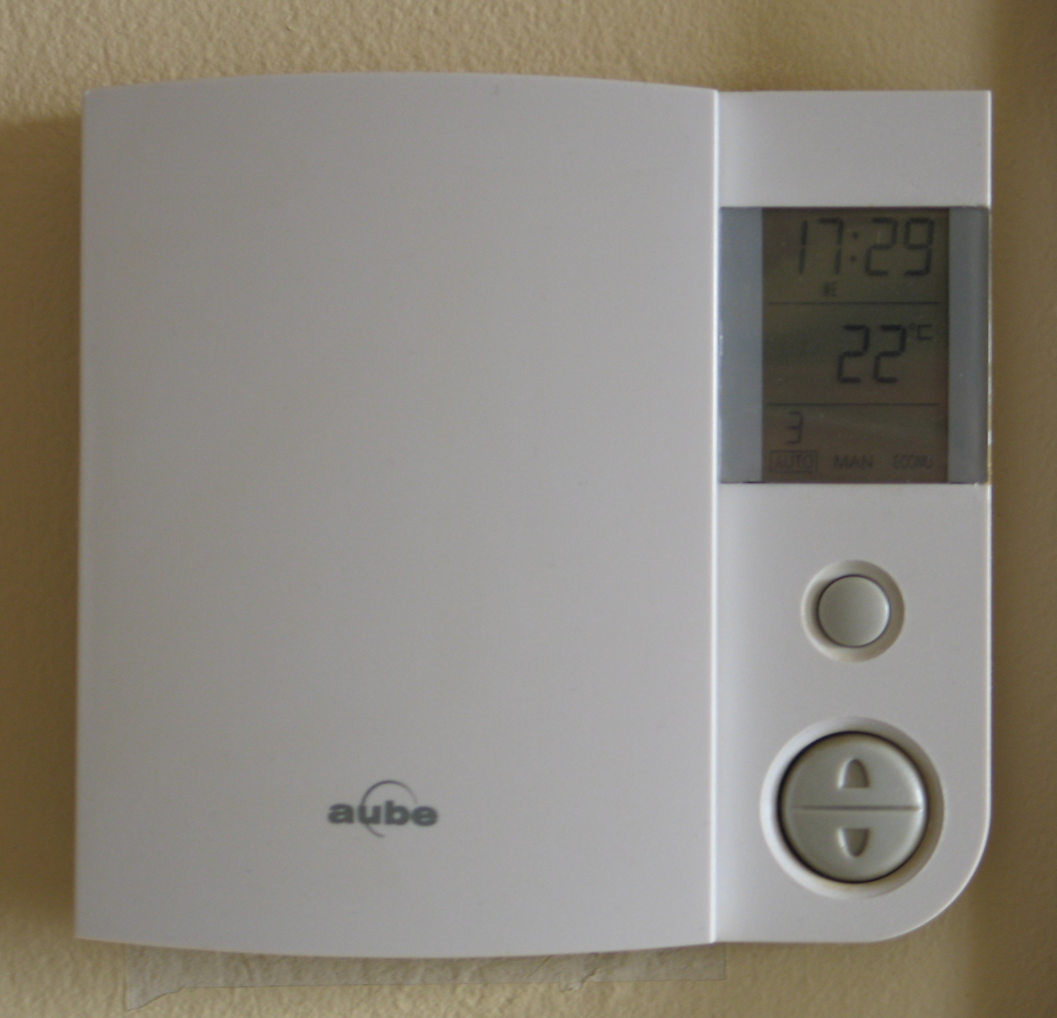 Electronic thermostat, manufactured by Aube (model TH104D)